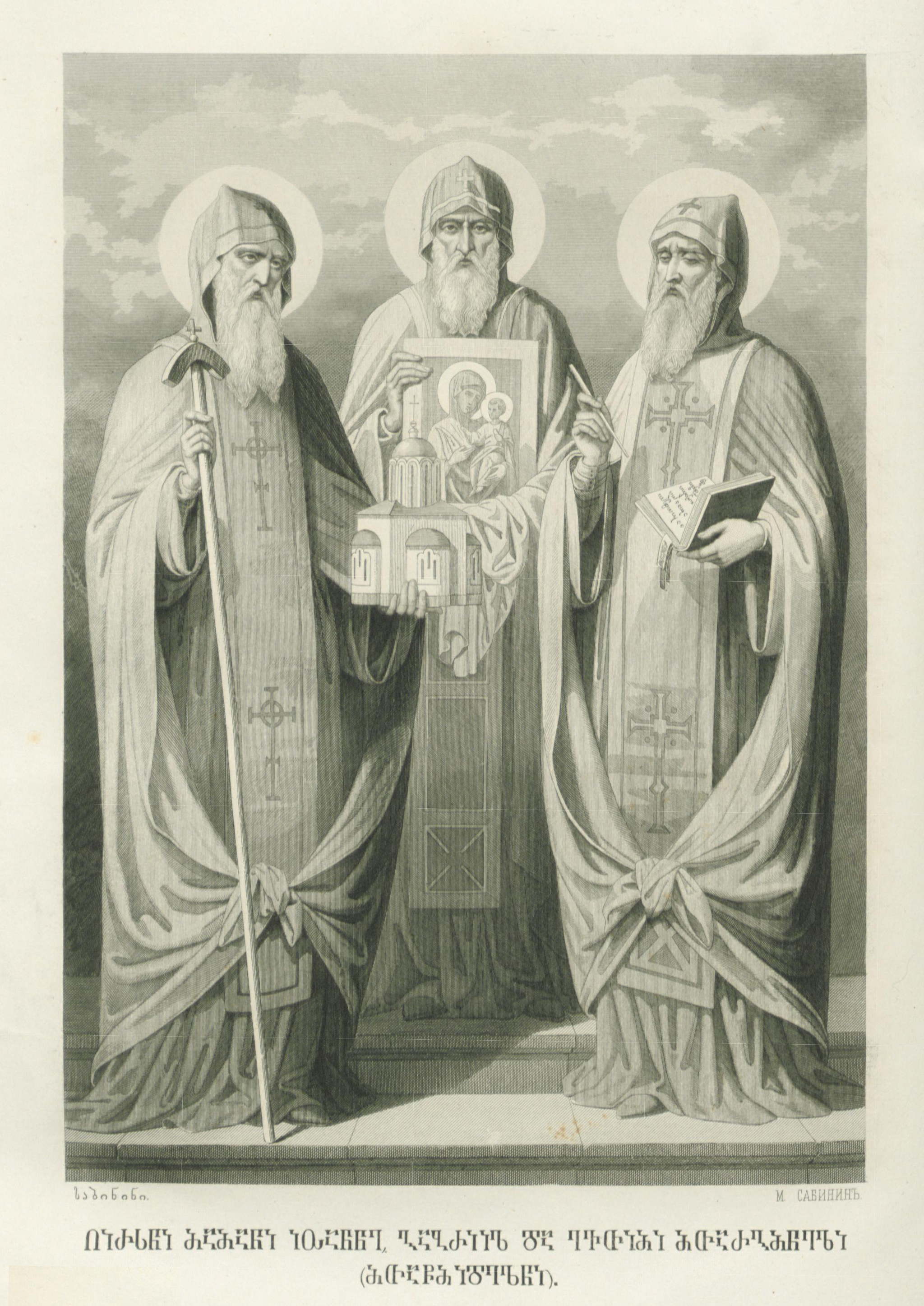 St. Ioane, Gabriel and Eqvtime Hagiorits (6th century)